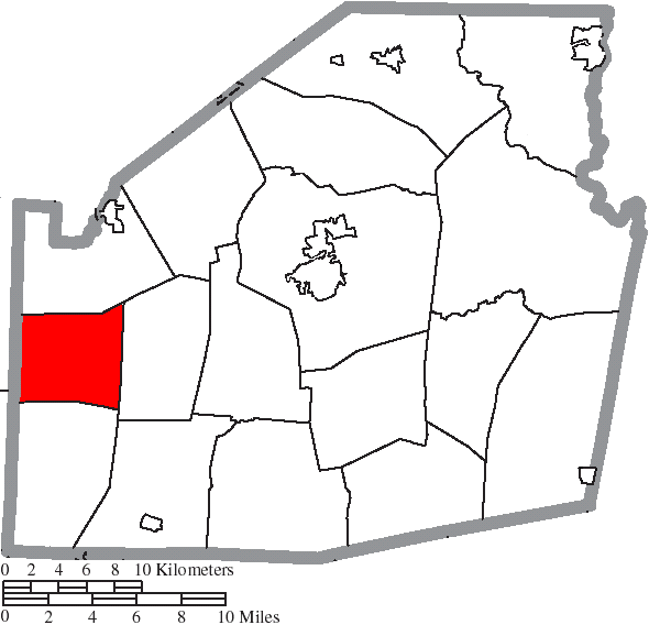 Map of the municipal and township boundaries of Highland County, Ohio, United States, as of the 2000 census, with the location of Salem Township highlighted. Township borders are shown only in unincorporated areas in order to differentiate incorporated and unincorporated areas more clearly.